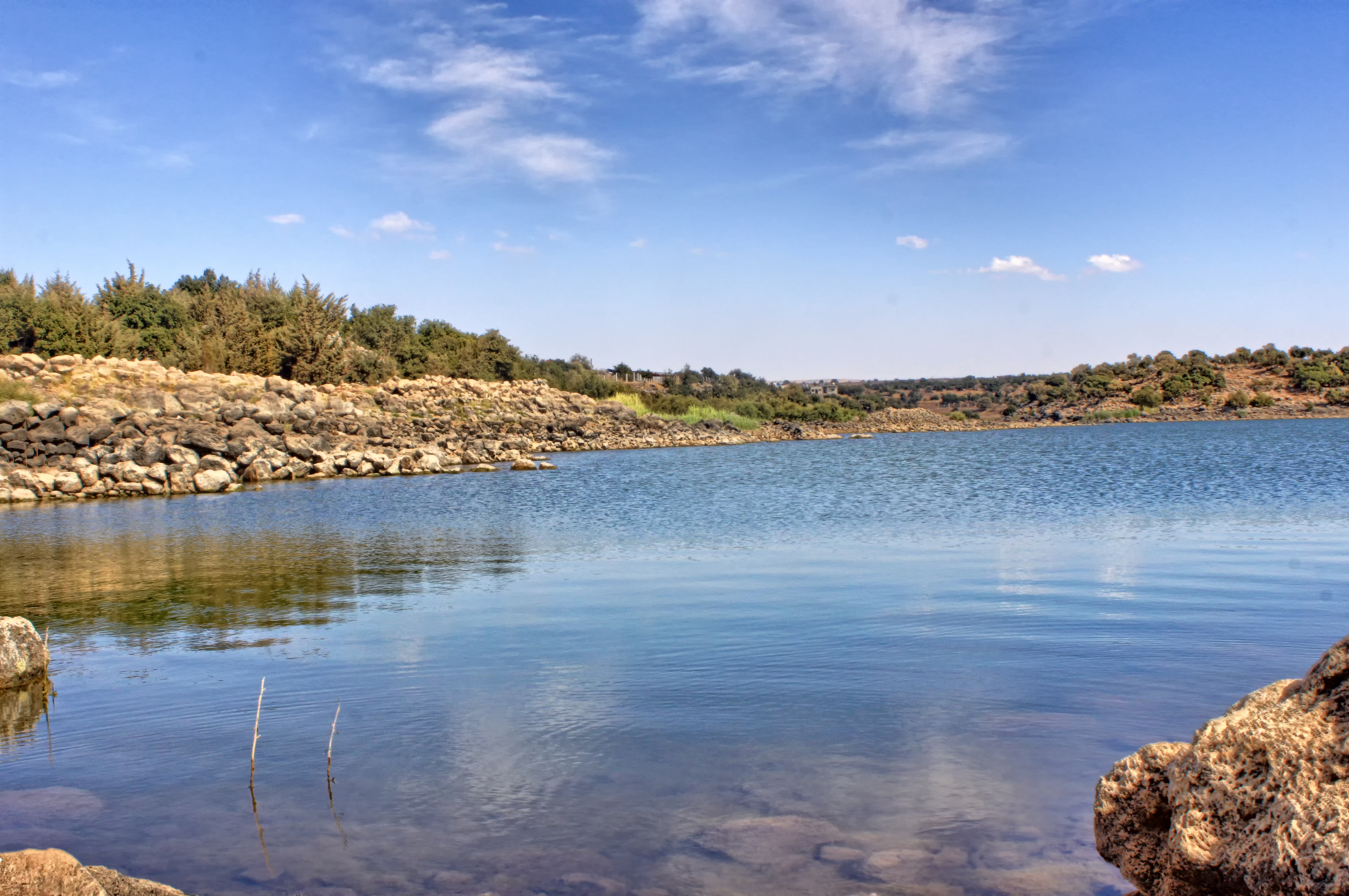 Hobran dam dam Syria Alswaida